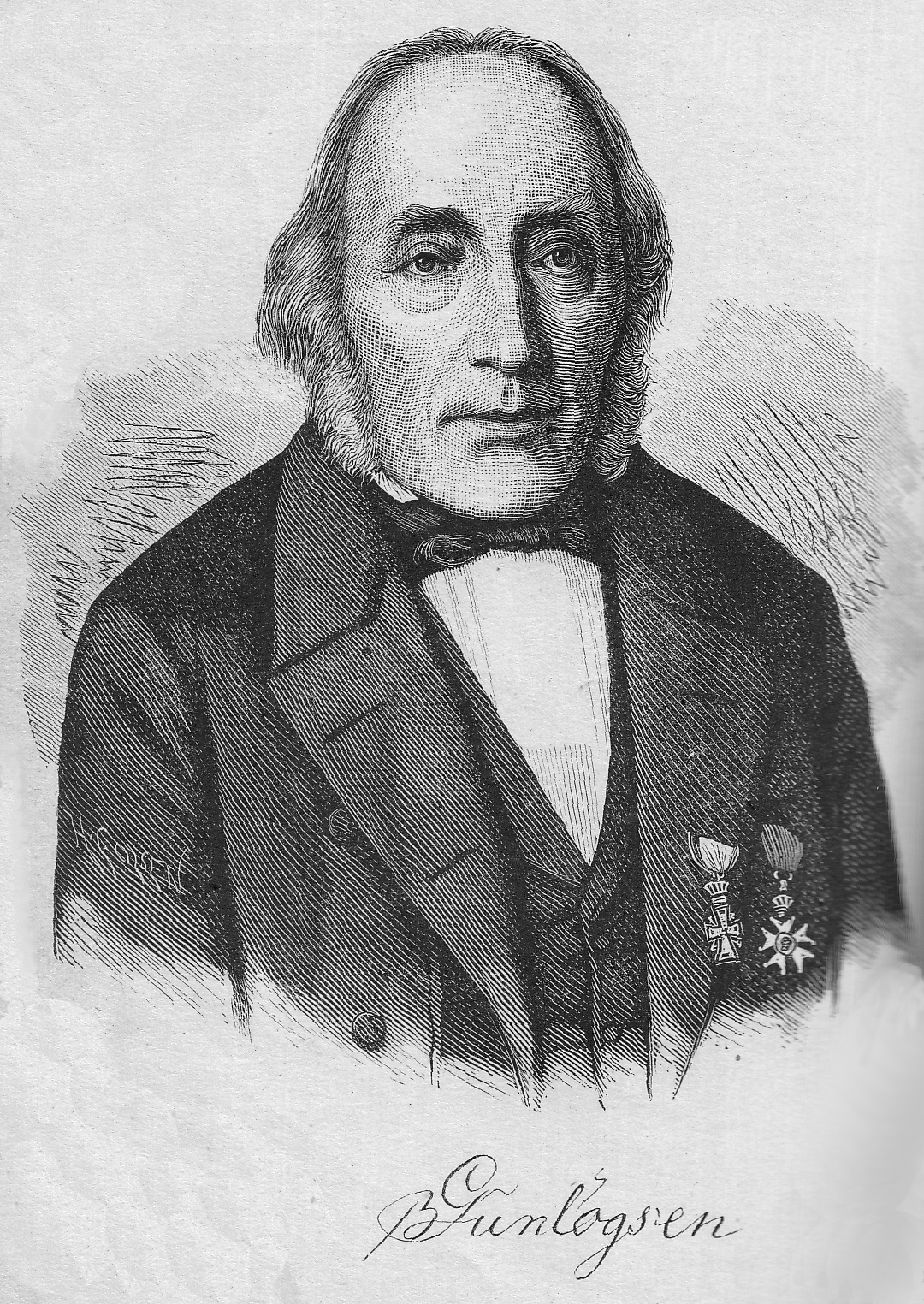 A portrait of Björn Gunnlaugsson (1788 – 1876). Below the portrait is written "B Gunløgsen", Björn's signature, using a Danicized version of Björn Gunnlaugsson's name.